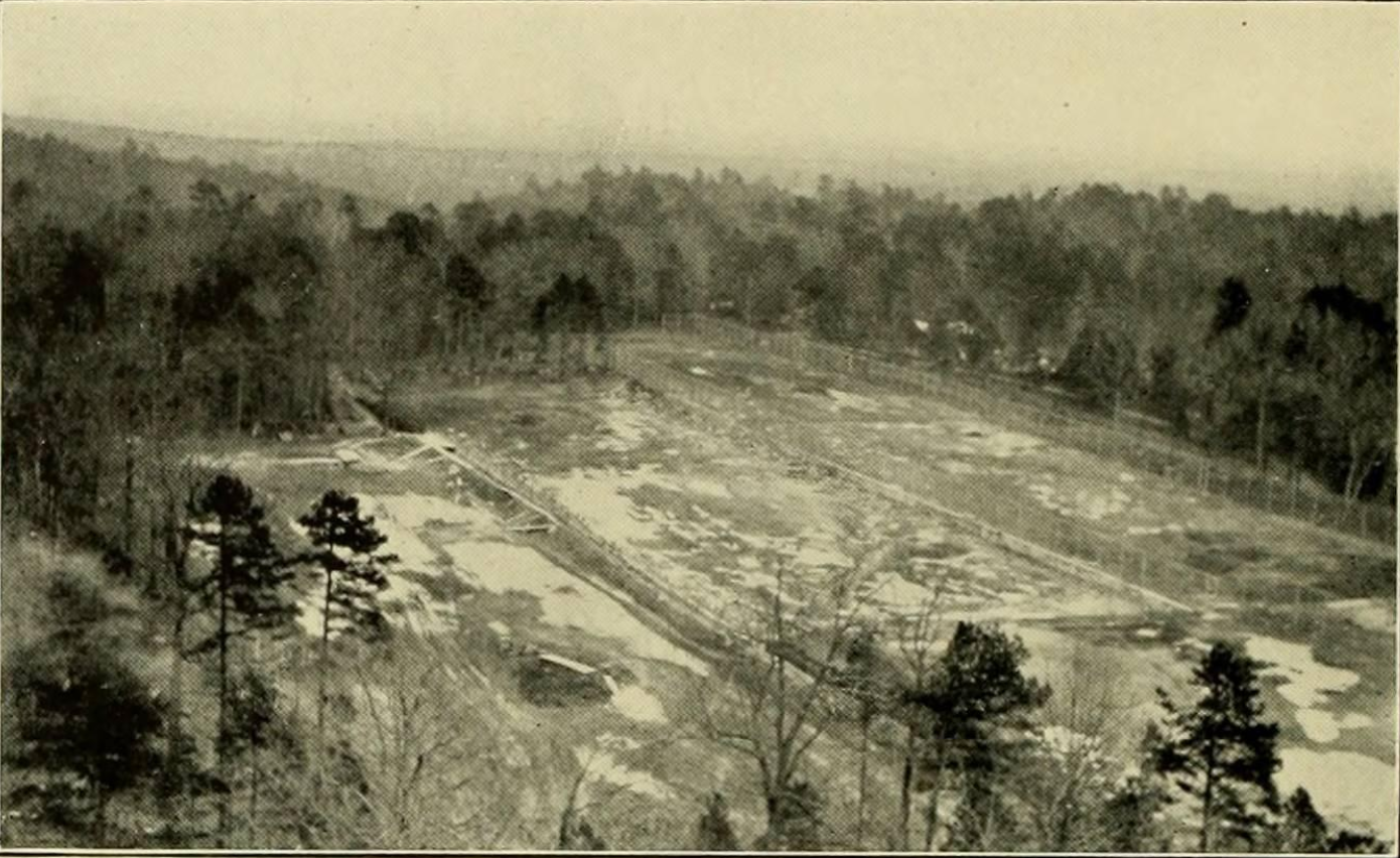 Photo from the yearbook of the site where the Tin Can (Indoor Athletic Center) was built